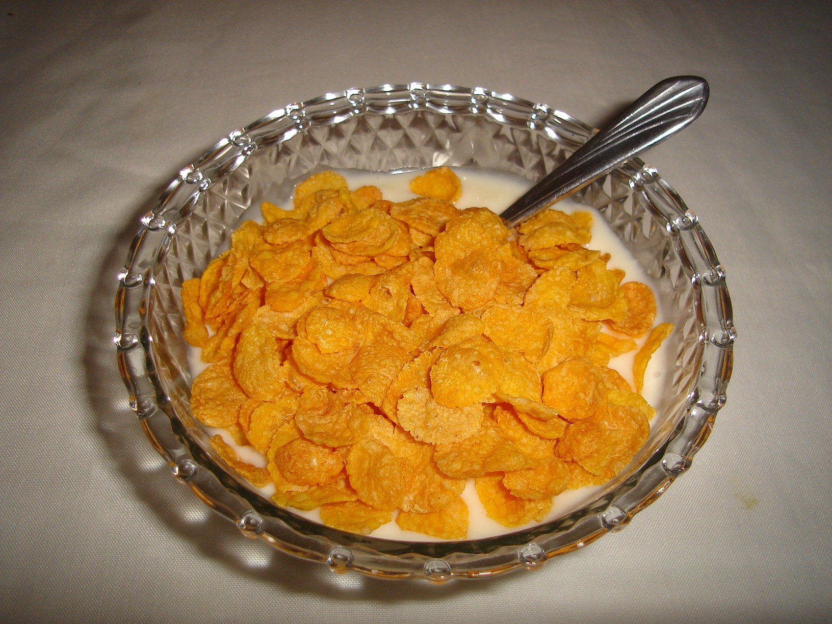 Cornflakes and yoghurt